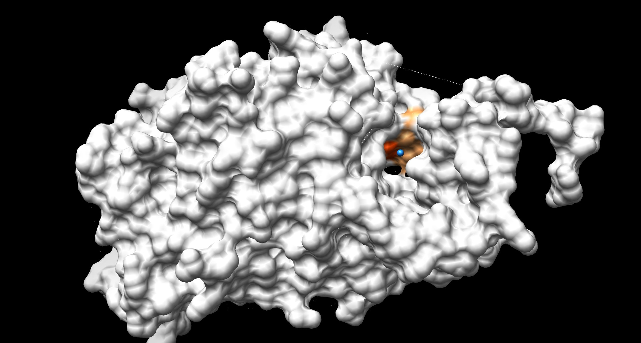 Illustration of Homogentisate 1,2-dioxygenase